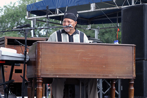 Art Neville of the Neville Brothers at Savannah College of Arts and Design, Savannah, Georgia, USA